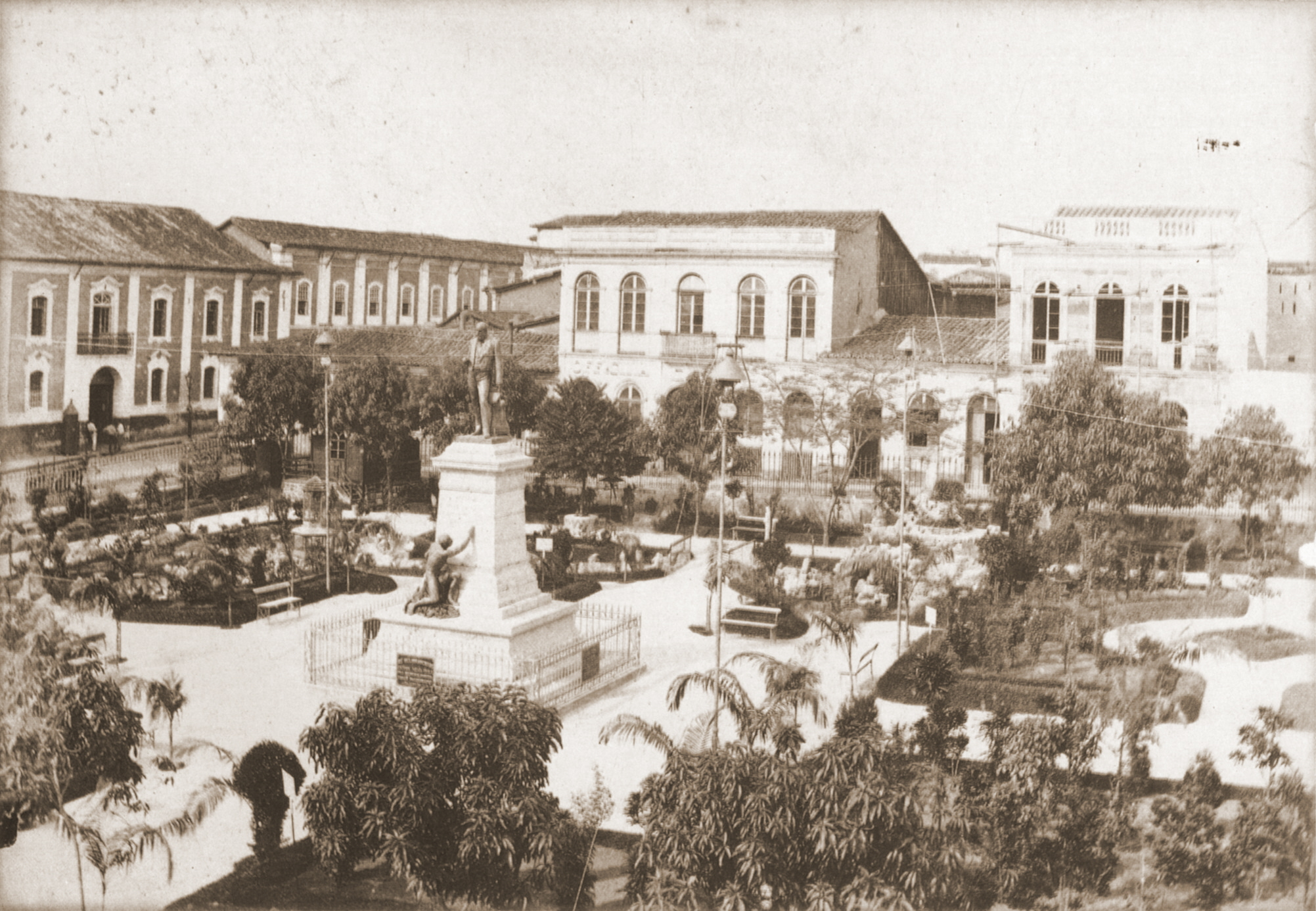 Visconde do Rio Branco Square, c.1880. This square is located in Belém, capital of the Brazilian state of Pará. Its name is a homage to the Brazilian statesman José Paranhos, Viscount of Rio Branco and a monument in his honor can be seen at the middle of the picture.